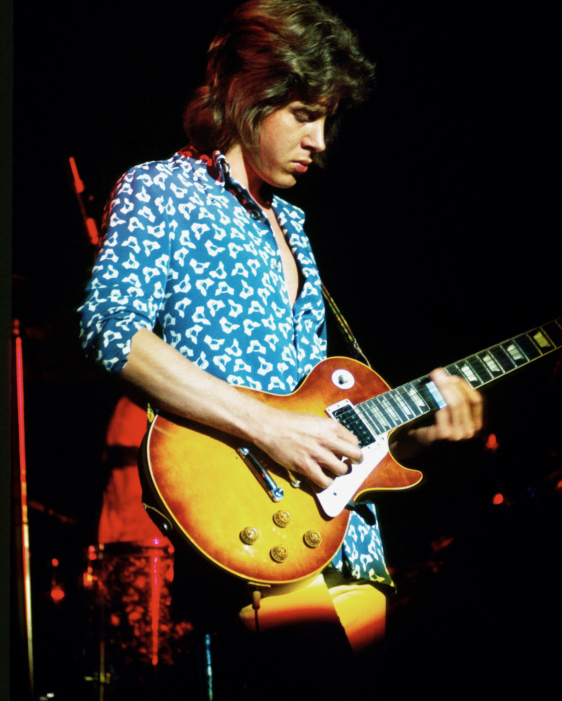 Mick Taylor during the Rolling Stones '72 tour of North America in June, at Winterland in San Francisco